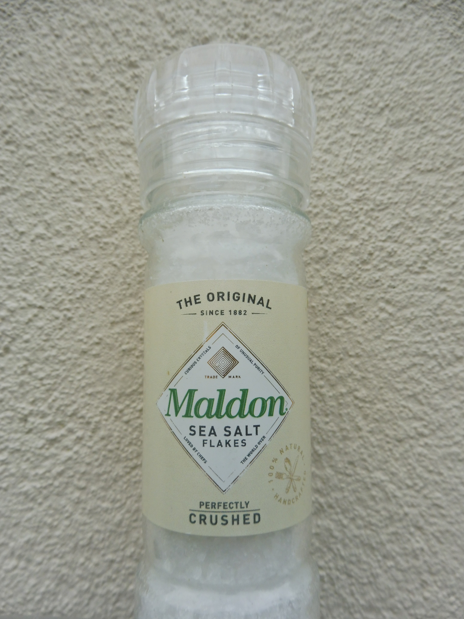 a cellar of Maldon Sea Salt flakes